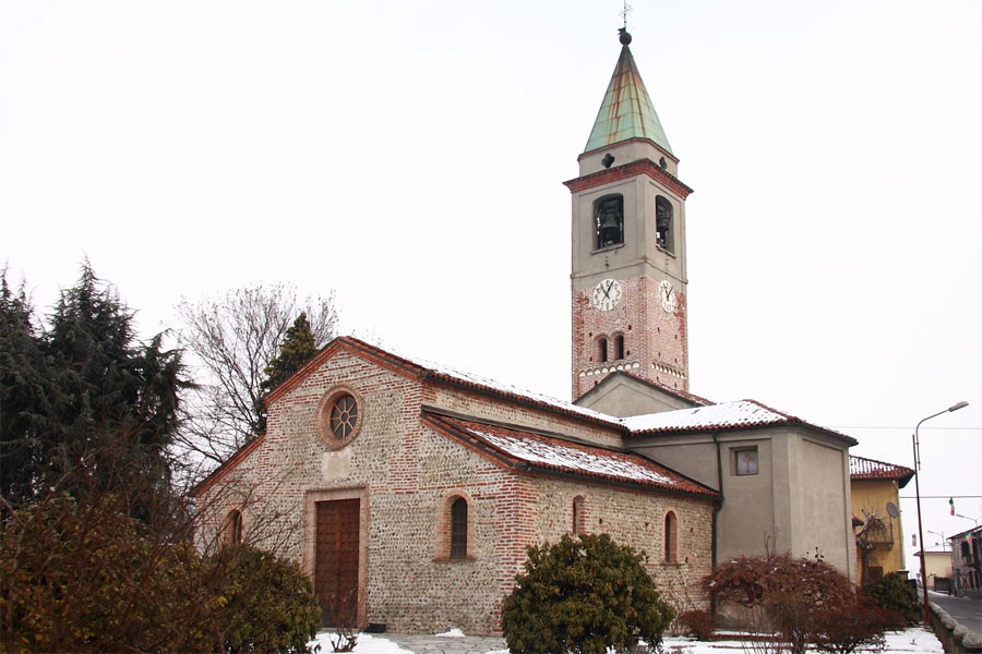 Parish church, Mandello Vitta, Novara, Italy